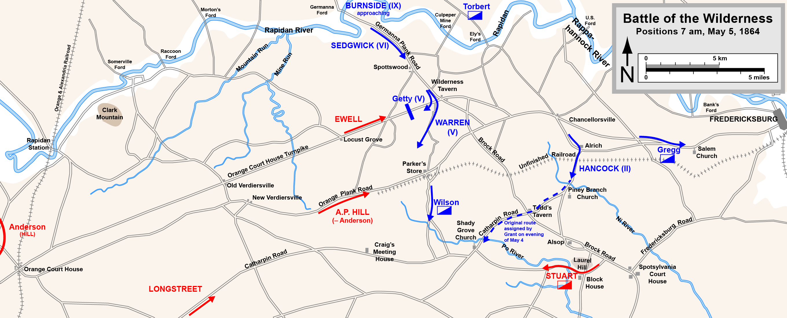 Map of the initial positions in the Battle of the Wilderness of the American Civil War. Drawn in Adobe Illustrator CS5 by Hal Jespersen. Graphic source file is available at Attribution: Map by Hal Jespersen